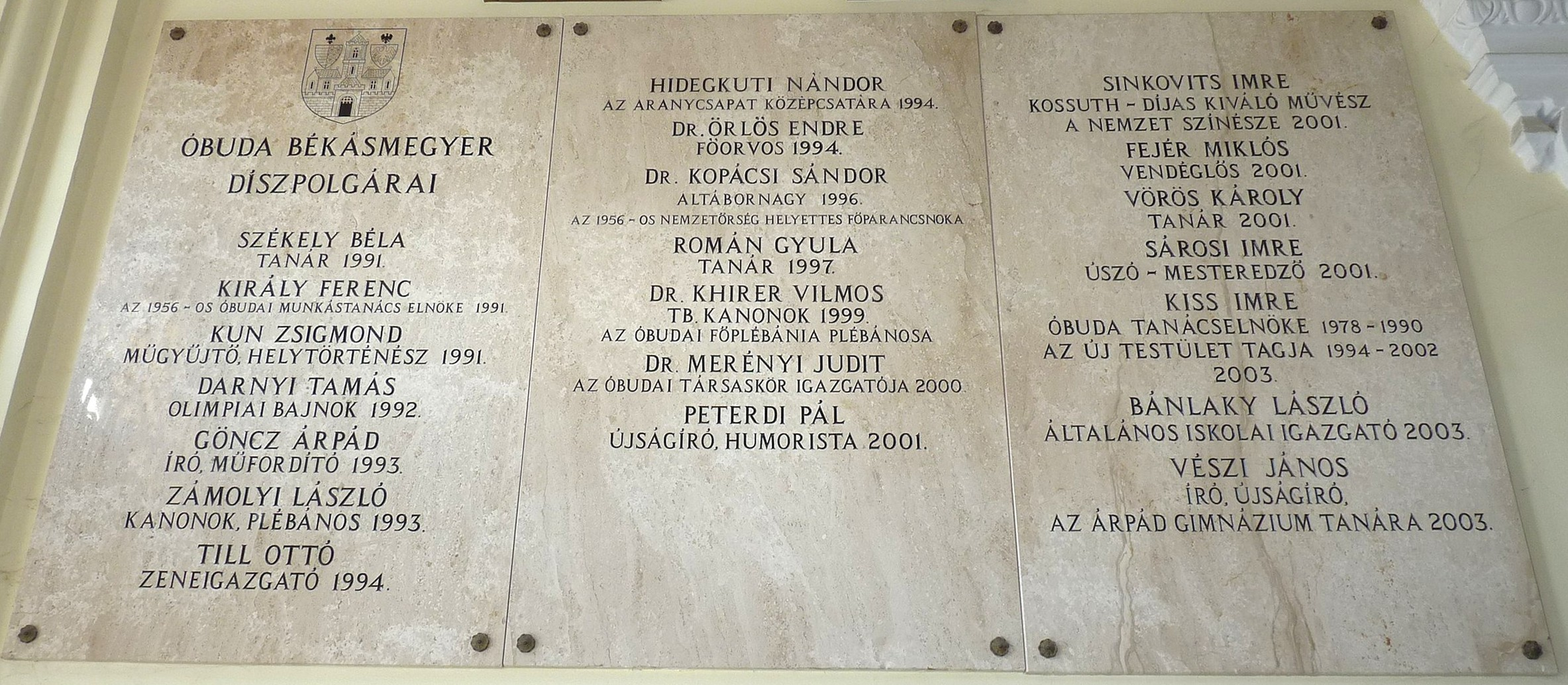 Plaque for the persons elected honorary citizens of Óbuda-Békásmegyer between 1991 and 2003. It is affixed in the doorway of the town-hall of the 3th District of Budapest. (Budapest, District III, Fő Square Nr 3)